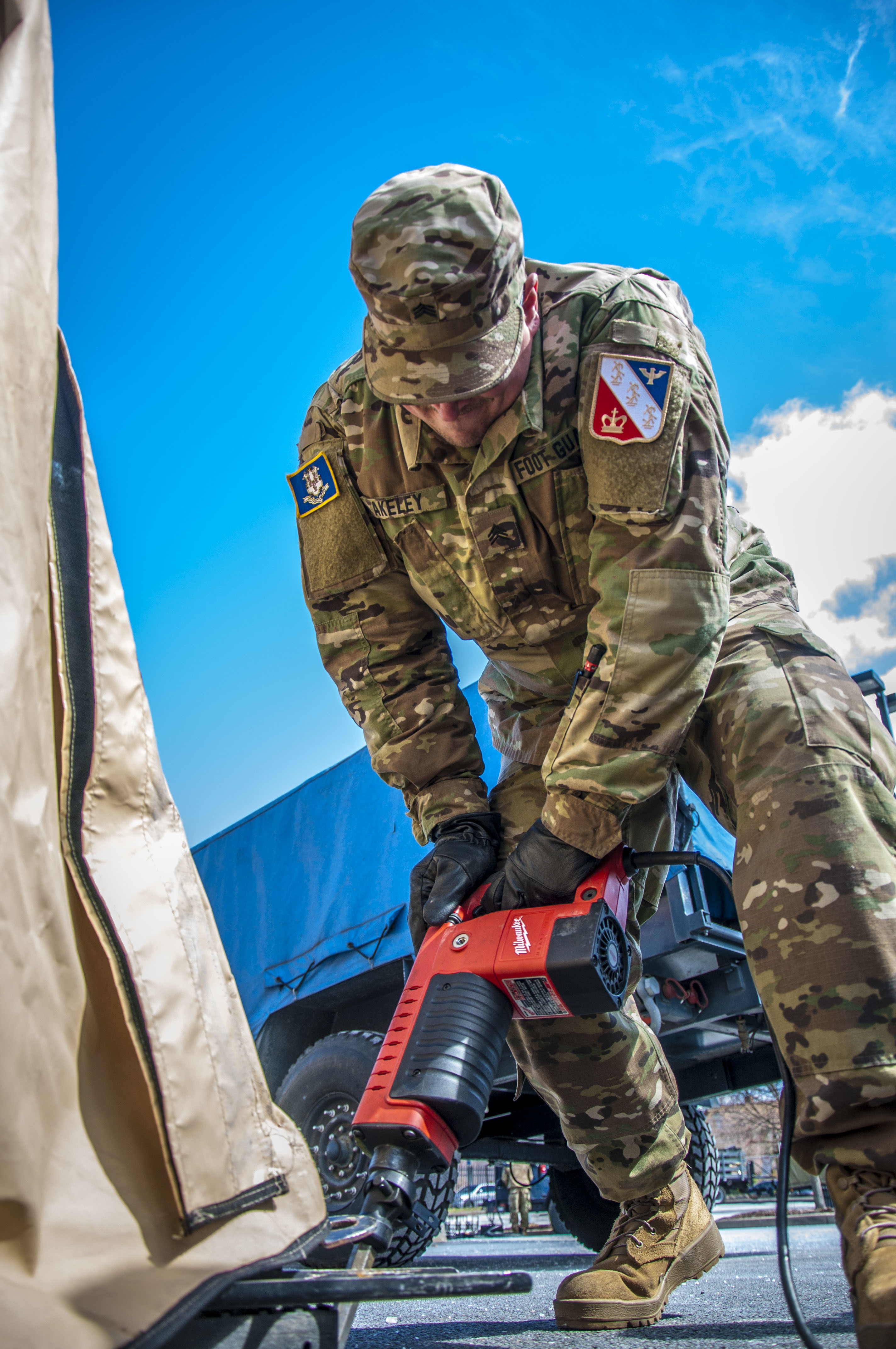 A member of the 1st Governor's Foot Guard drills a pilot hole for a tent stake in the parking lot of Saint Francis Hospital in Hartford, Connecticut, March 24, 2020. Members from the 1st and Second Foot Guard and 2nd Governor's Horse Guard constructed a field hospital in the parking lot to help provide extra space, if needed, during the COVID19 outbreak.